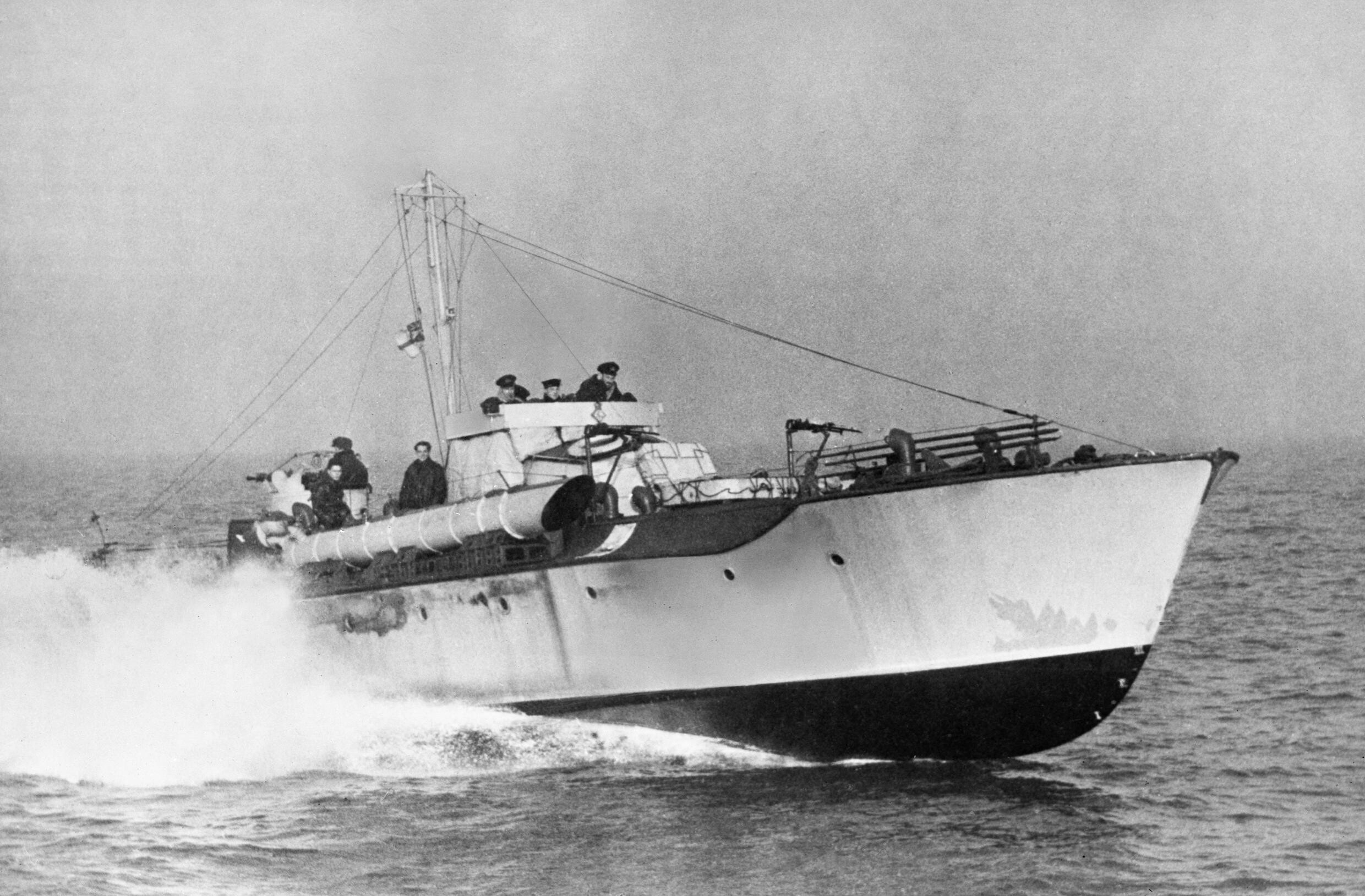 Fighter Seacraft- Motor Torpedo Boats, England, UK, 1943 A portrait of MTB 32, as she crashes through the waves of the English Channel. Clearly visible on the bridge is Lieutenant Peter Dickens, Commanding Officer of 21st MTB Flotilla. MTB 32 was a 4th Flotilla vessel and was probably operating in the Channel out of Felixstowe.